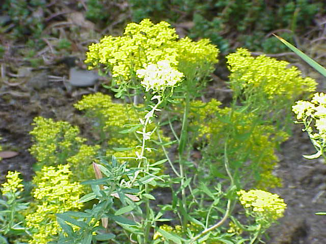 Species: Alyssum murale Family: Brassicaceae Image No. 1